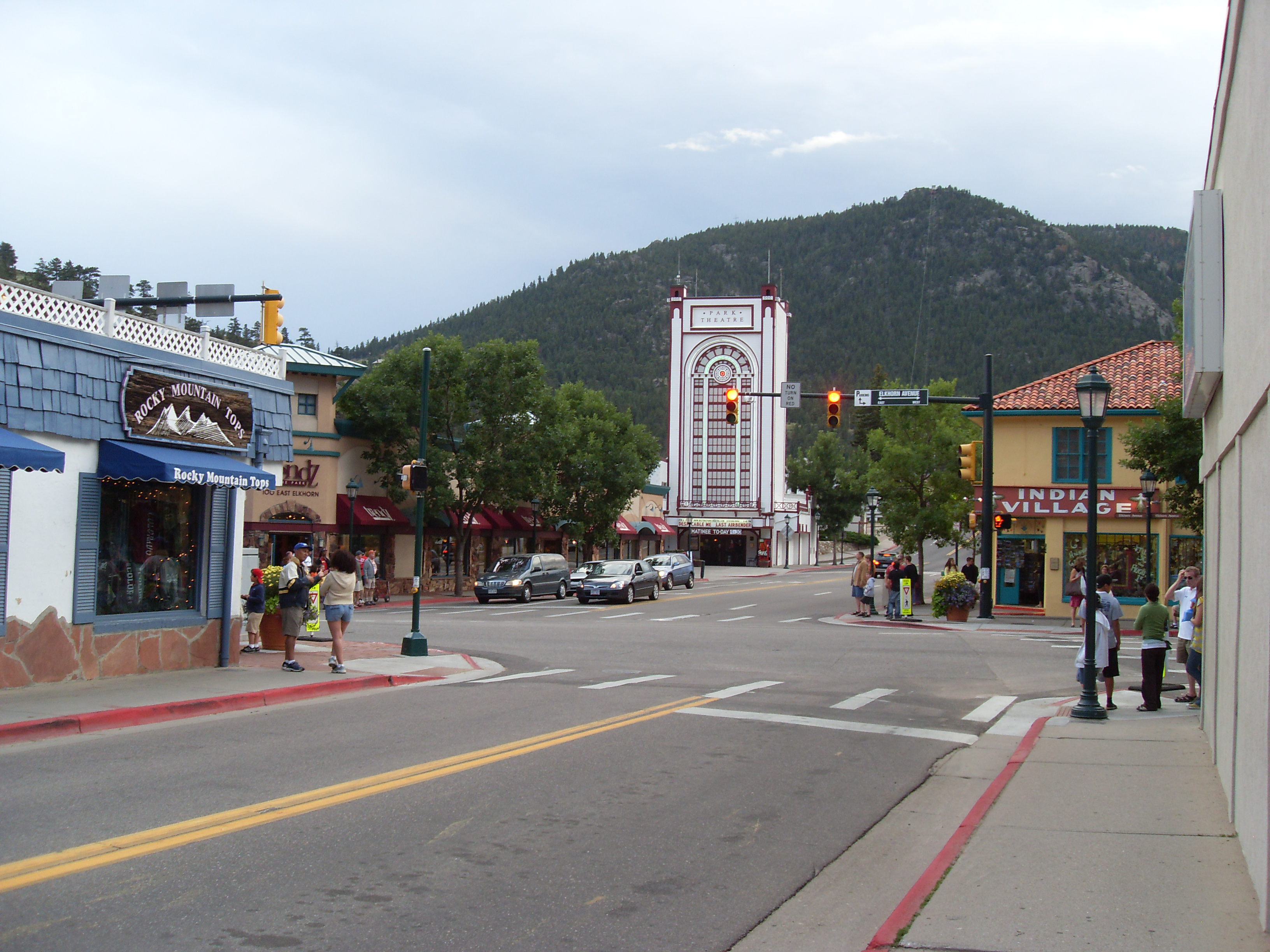 City center of Estes Park with the Park Theatre along US36 and C-66.